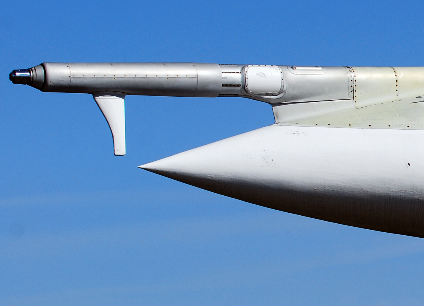 Closeup of refuelling probe of Tupolev Tu-22M1 (Backfire-A).